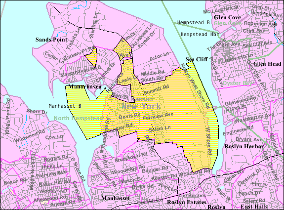 U.S. Census 2000 reference map for Port Washington